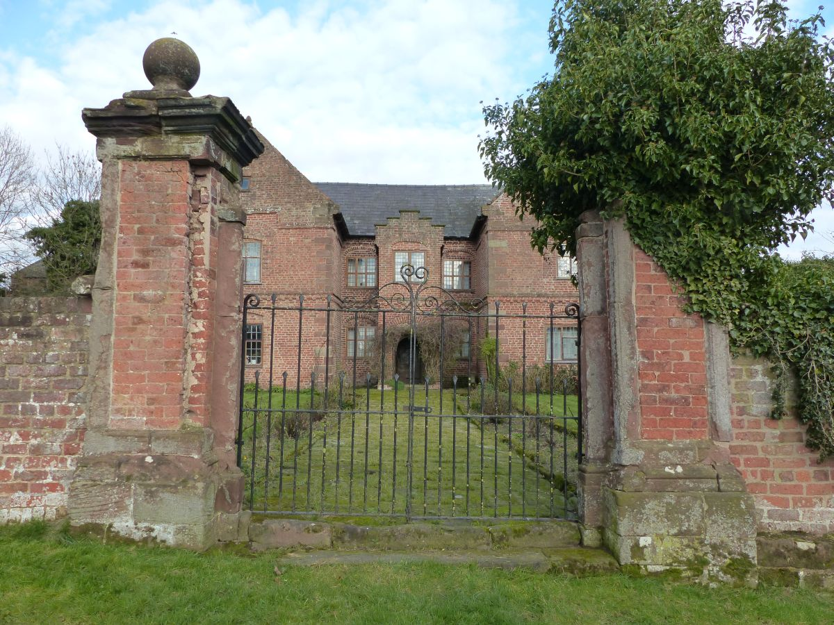 Grade II listed gates to Shotwick Hall, Cheshire.